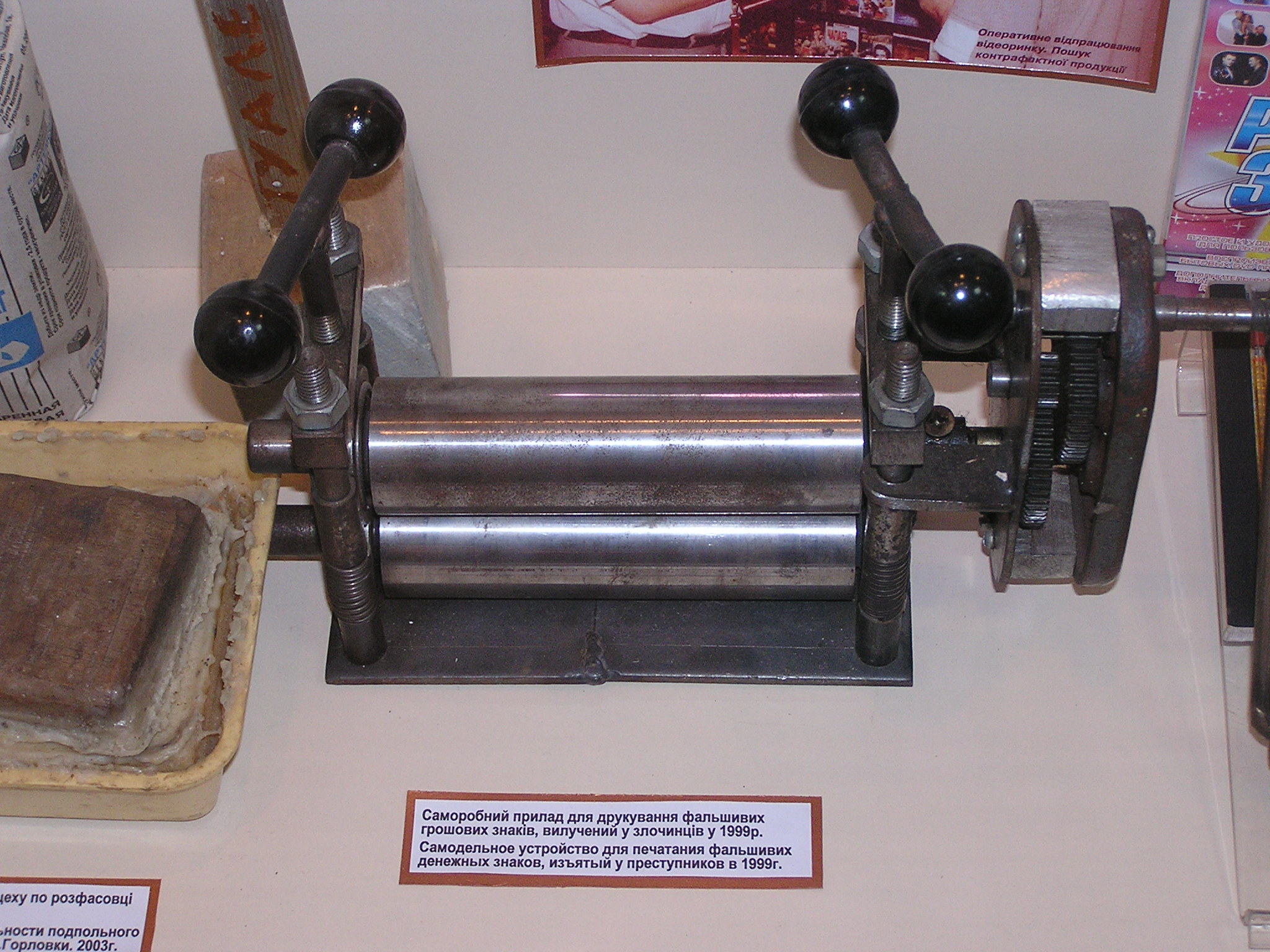 Museum of the History of Donetsk militsiya